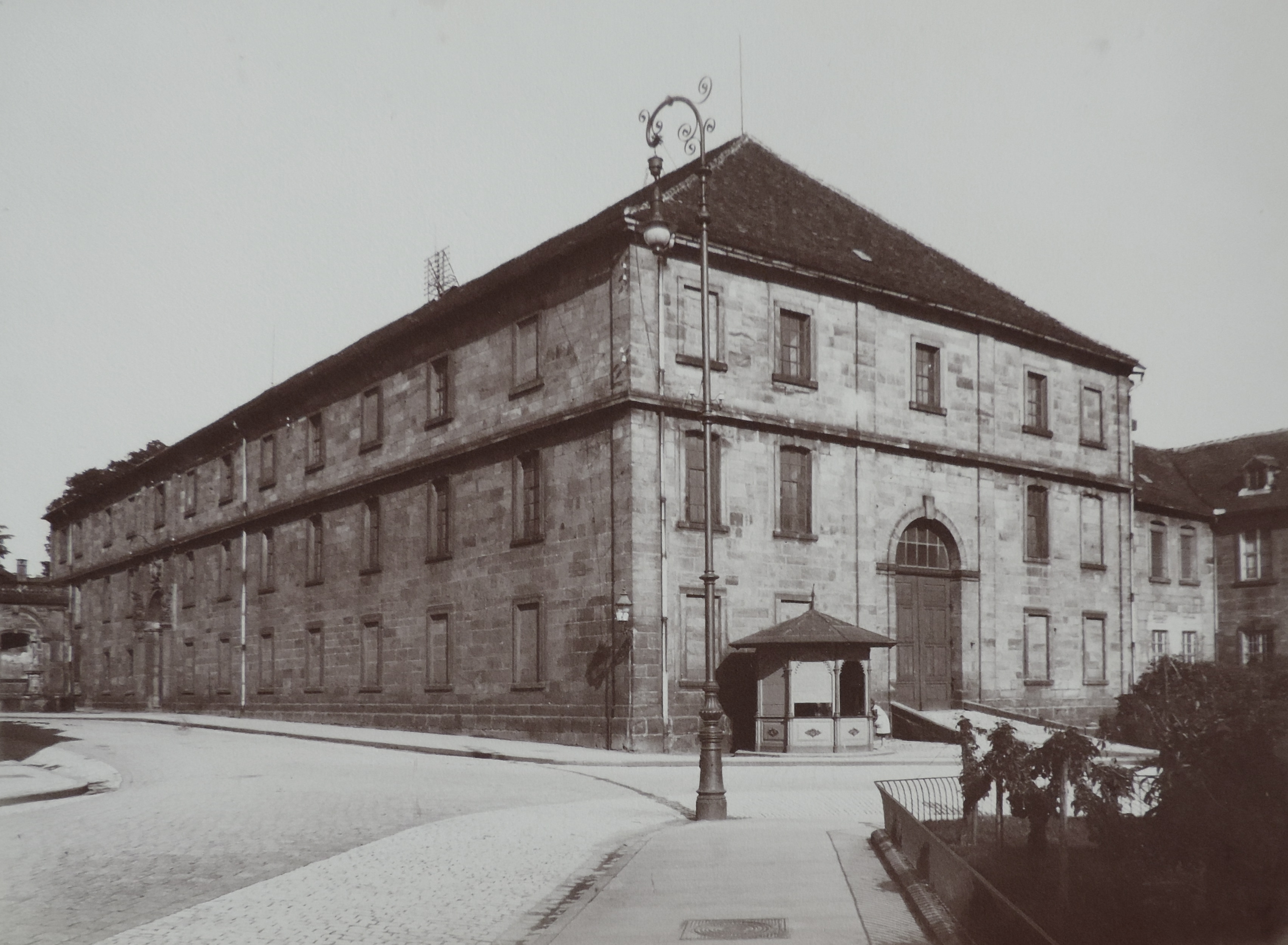 Views and photos of Bayreuth, Germany, gifted to Ferdinand I of Bulgaria to commemorate his 25-year rule. A building from 1748.